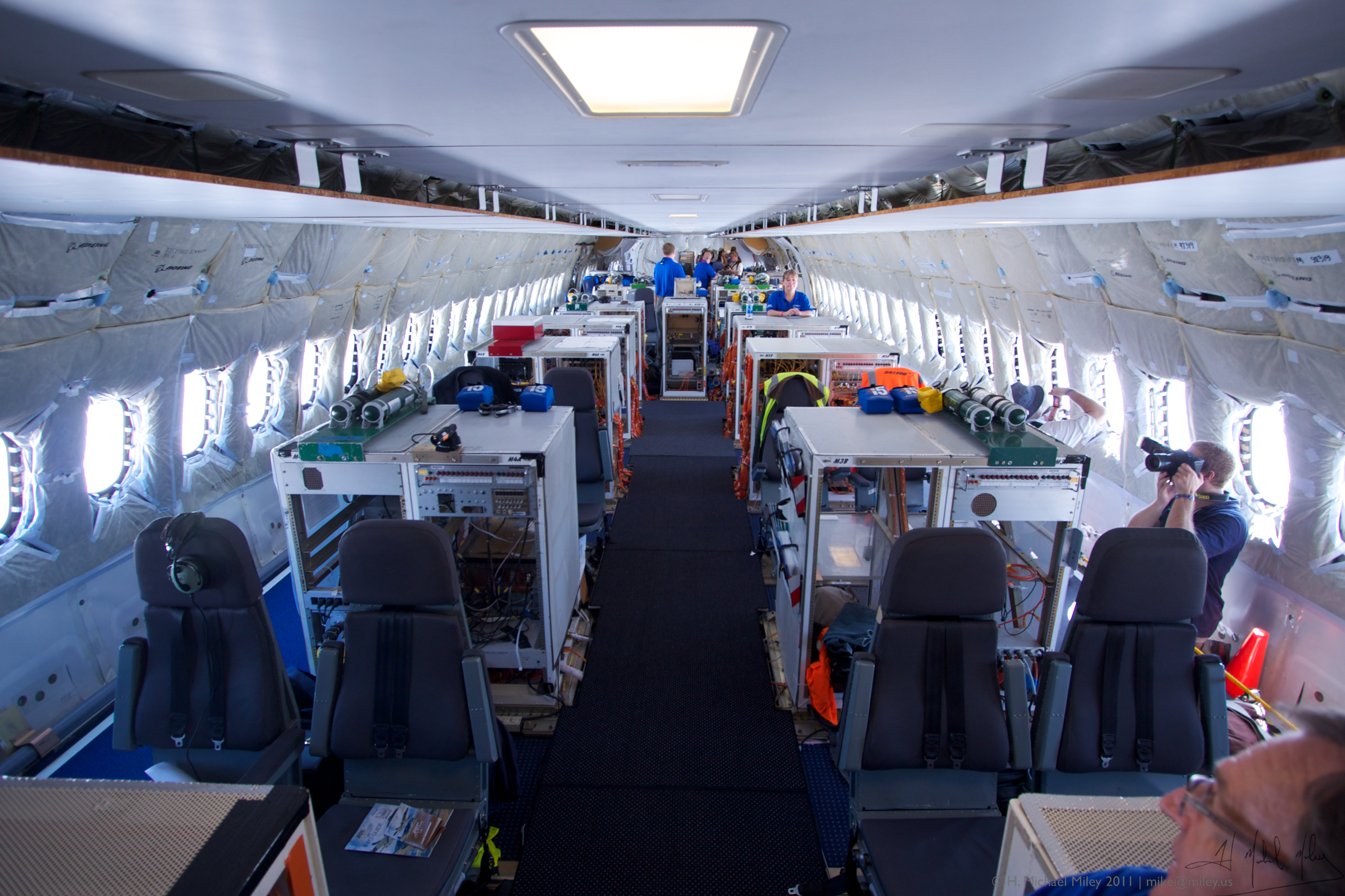 787 Tour